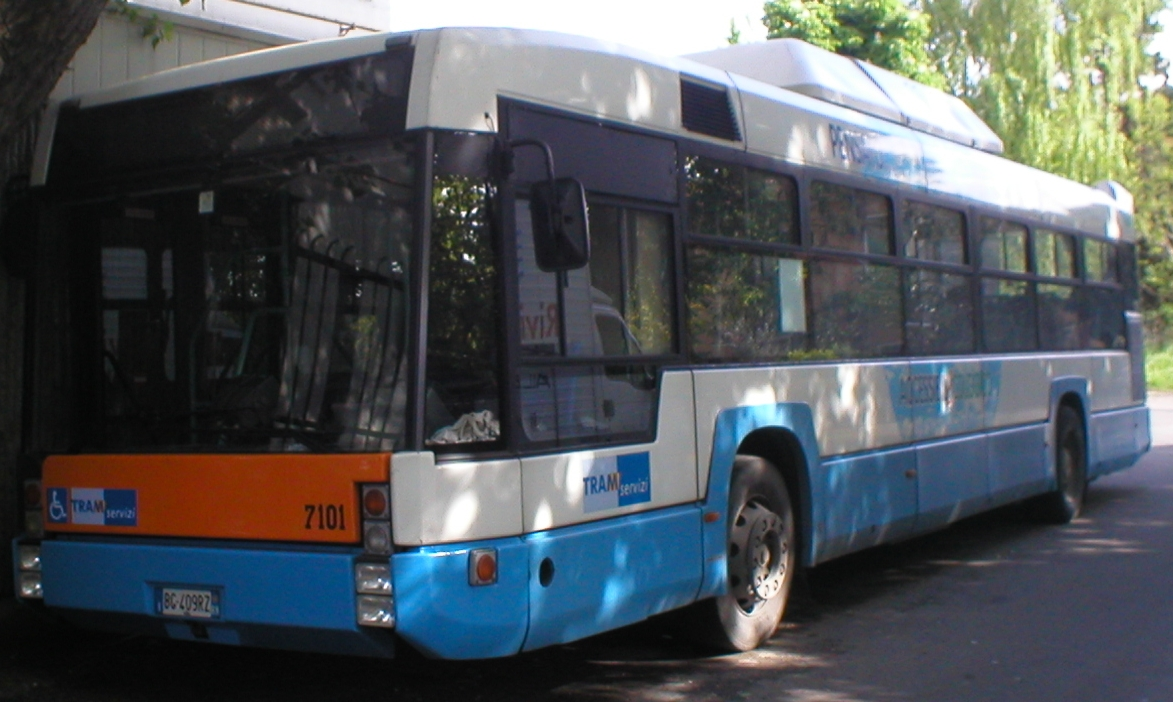 Autodromo BusOtto 12 LPG bus (#7101) in Rimini, Italy. TRAM Servizi, S.p.A. operator.